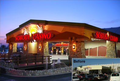 This casino design dramatically remodeled the inside and outside of this large Sprung Structure which had very little casino design into a warm, inviting lodge-style décor casino atmosphere.